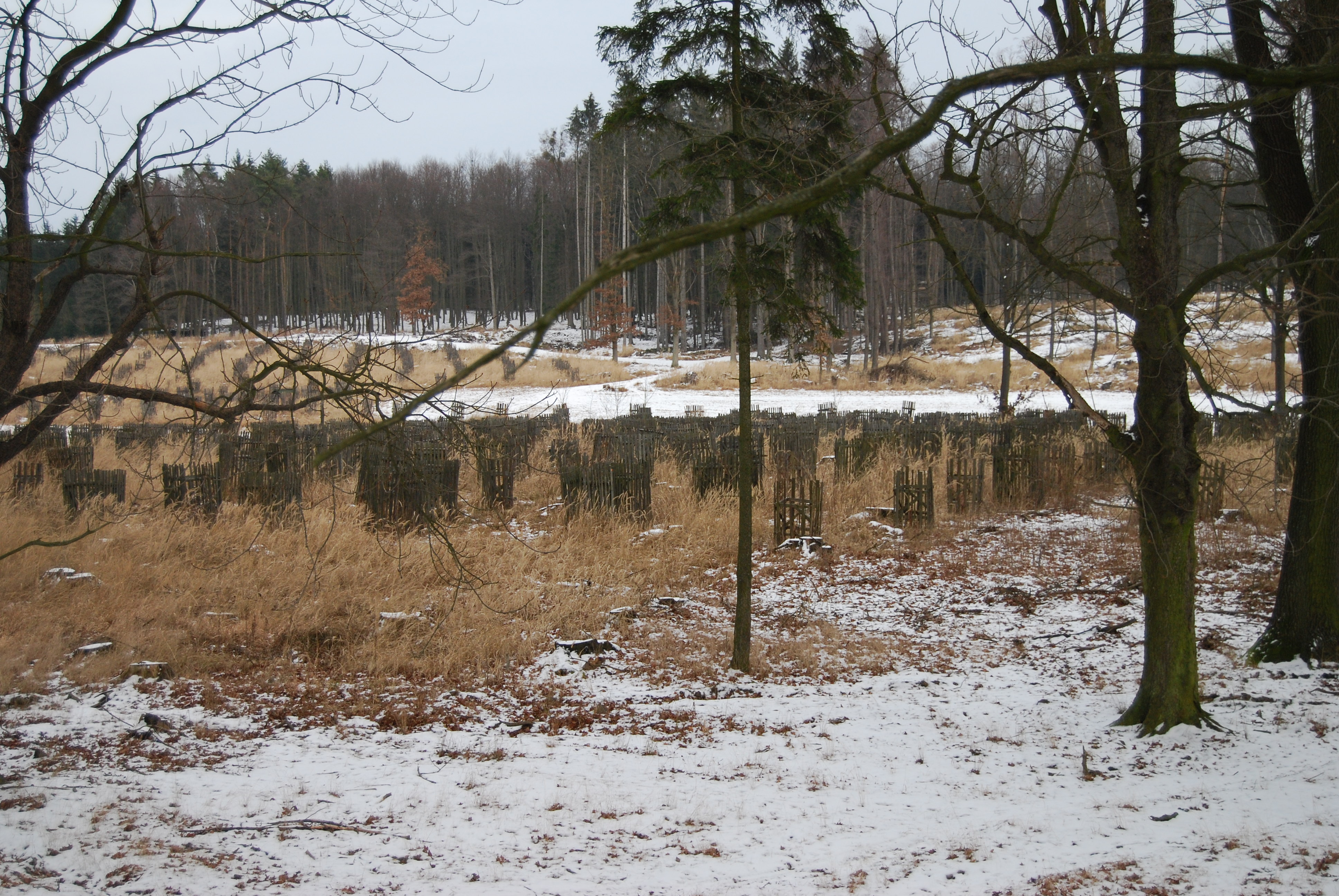 Sedlická obora, Czech Republic.